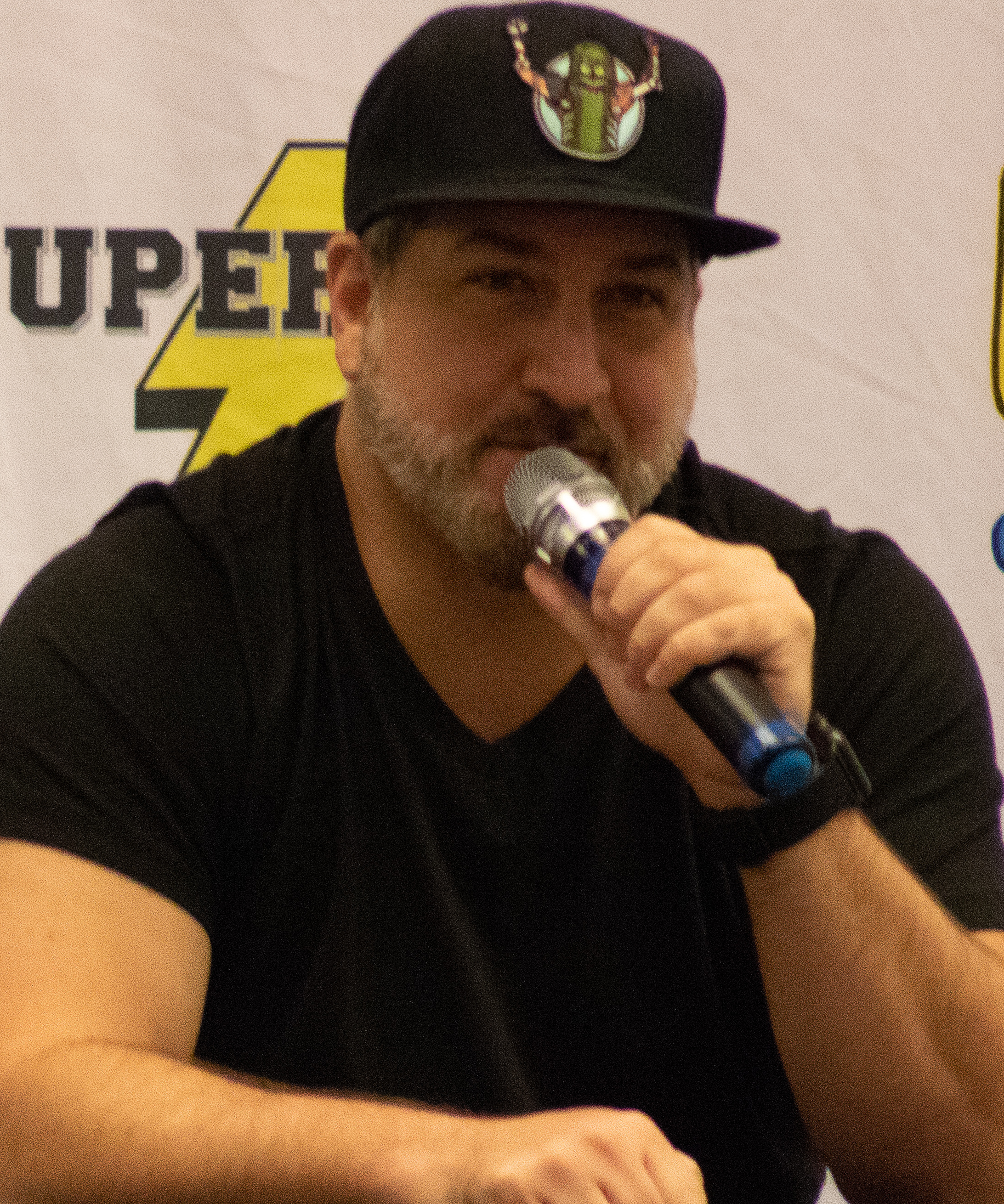 Raleigh Supercon 2018 Joey Fatone Q&A